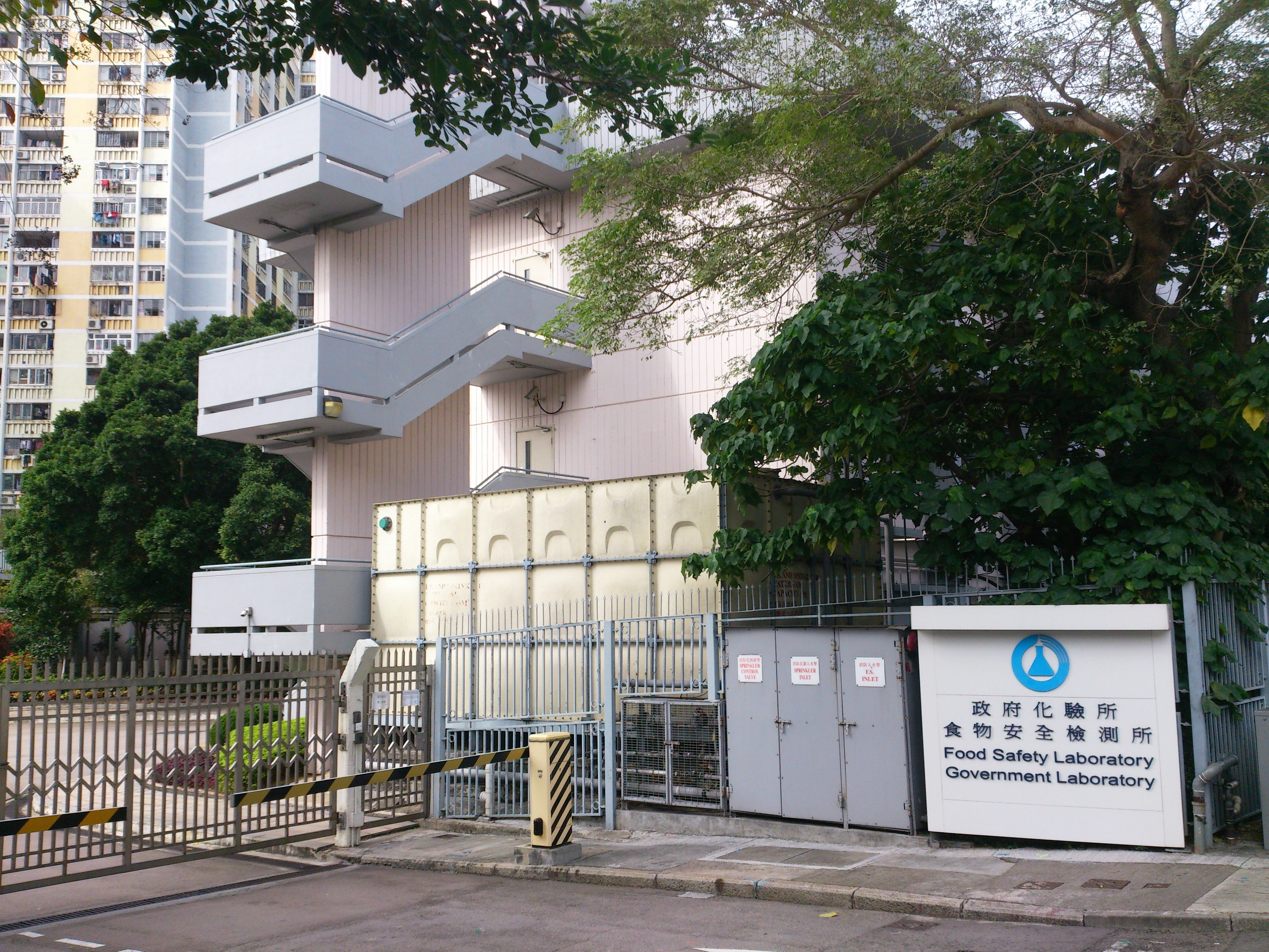 Government Laboratory Food Safety Laboratory